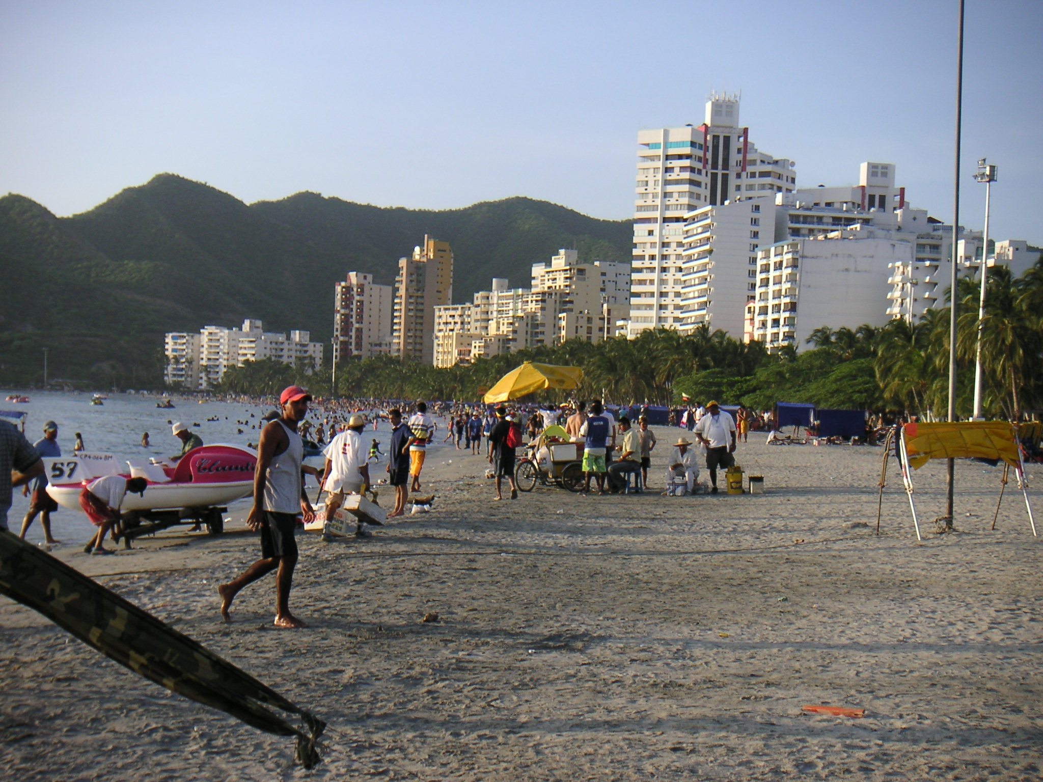 Description: Santa Marta Beach, Colombia Source: Louise Wolff (darina), May 2005